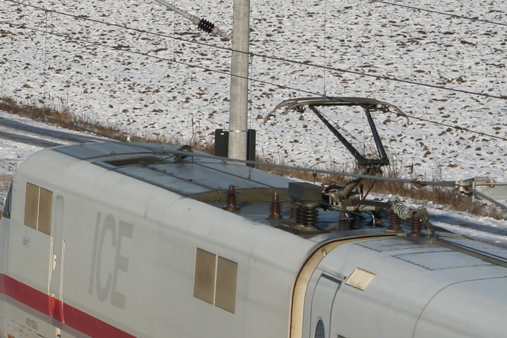 Pantograph for measurements on the ICE S, an experimental German high-speed train